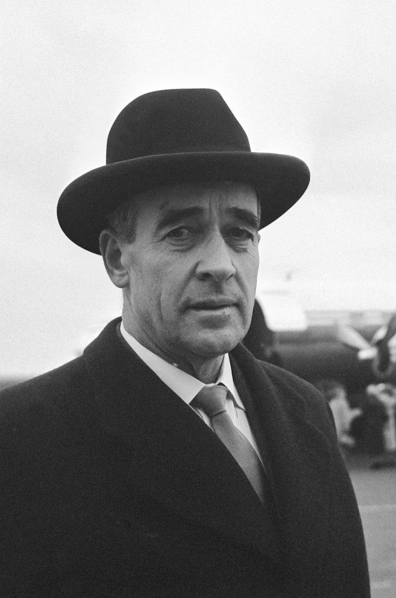 Photograph of the Finnish businessman Eino Kivivuori (1900–1966) at Seutula Airport.